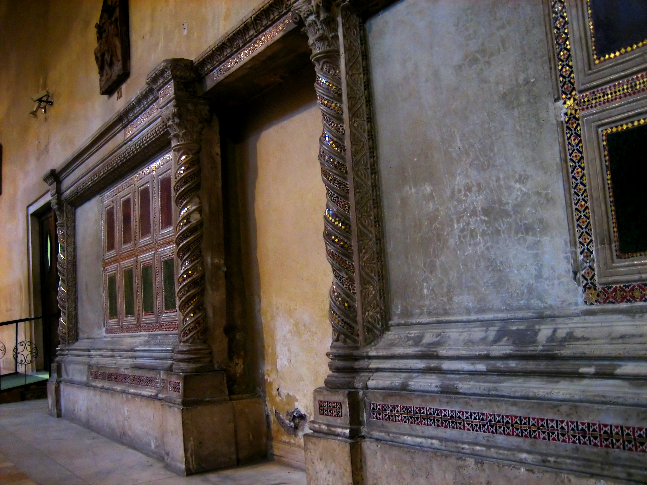 San Saba (Rome), schola cantorum. This was only removed from the nave in 1943, and is a thirteenth-century work of the Vassalletto workshop, the same people who made the dazzling cloisters of S. Paolo fuori le Mura and S. Giovanni in Laterano.